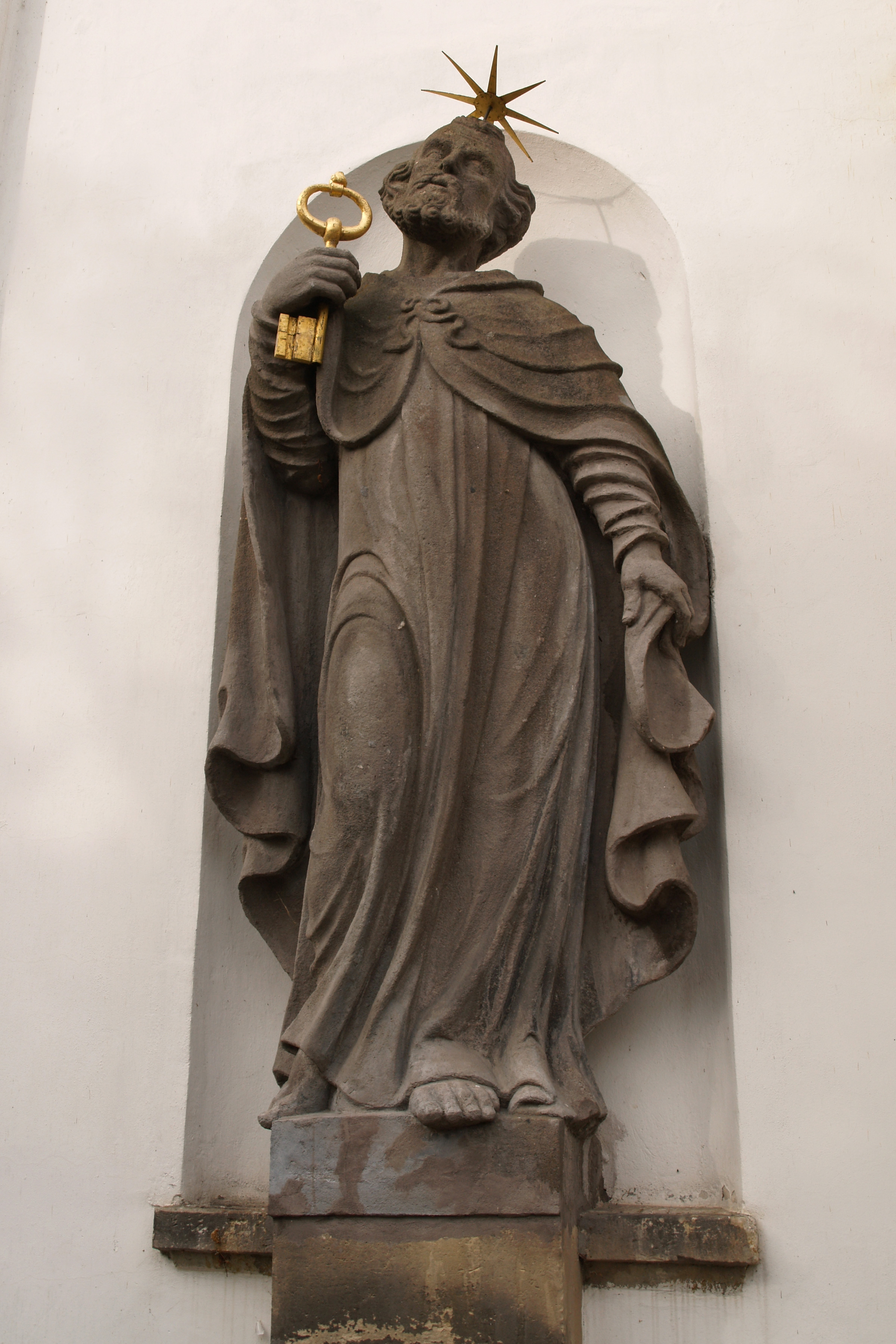 Semily, Czechia — Saints Peter and Paul church, detail of Peter’s statue